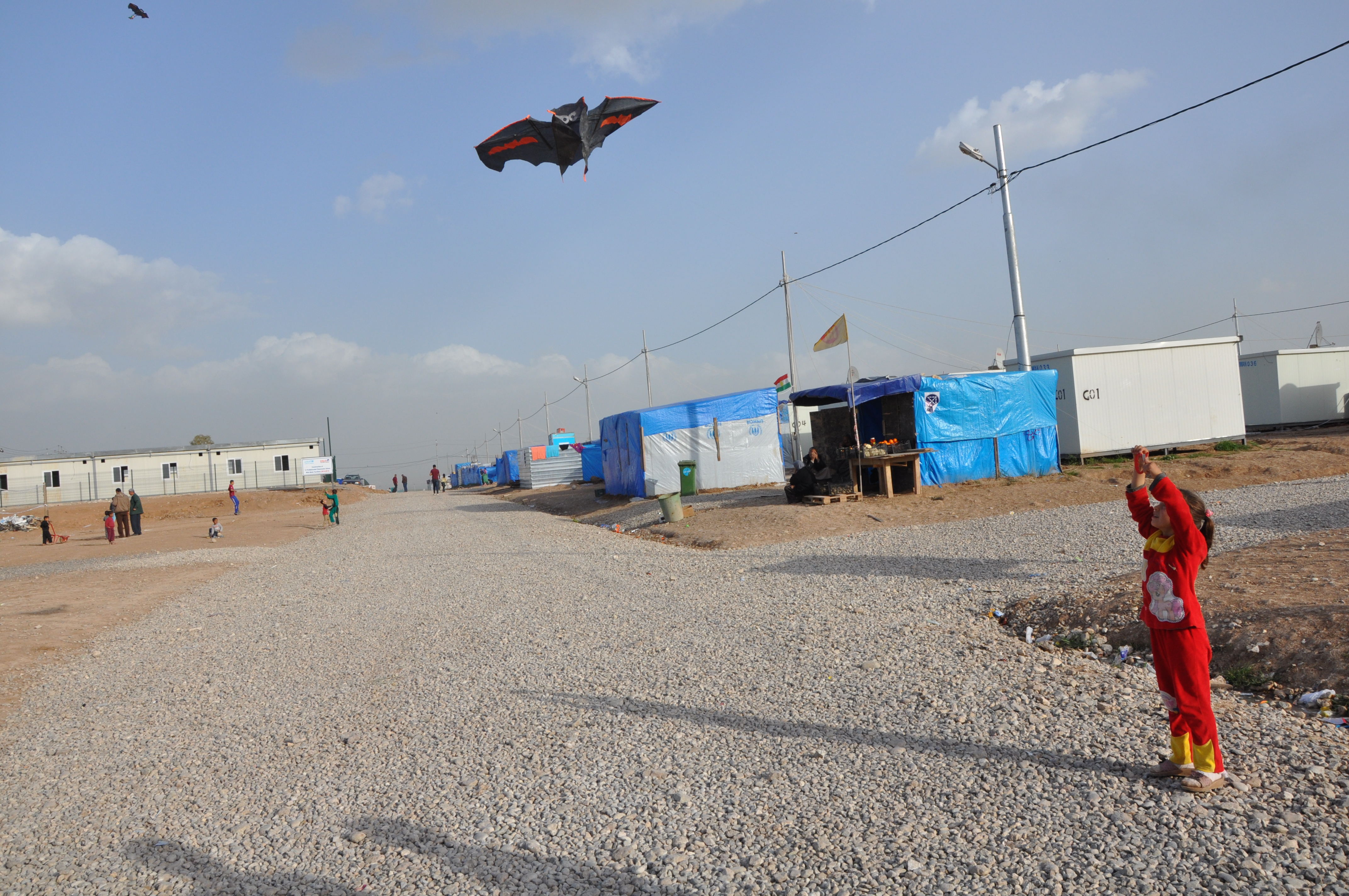 IDPs in Iraq